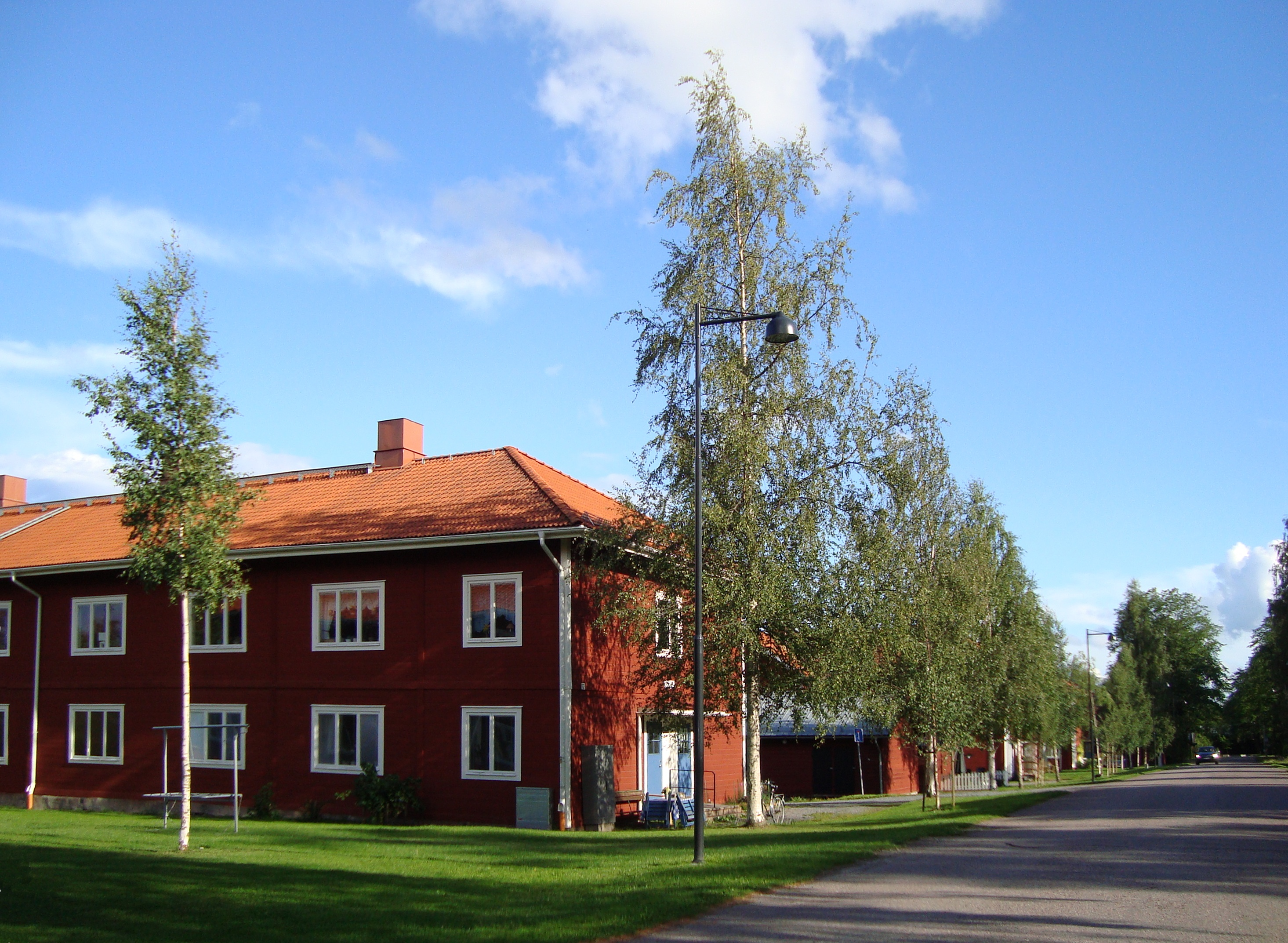 Part of Hushagen, Borlänge, Sweden